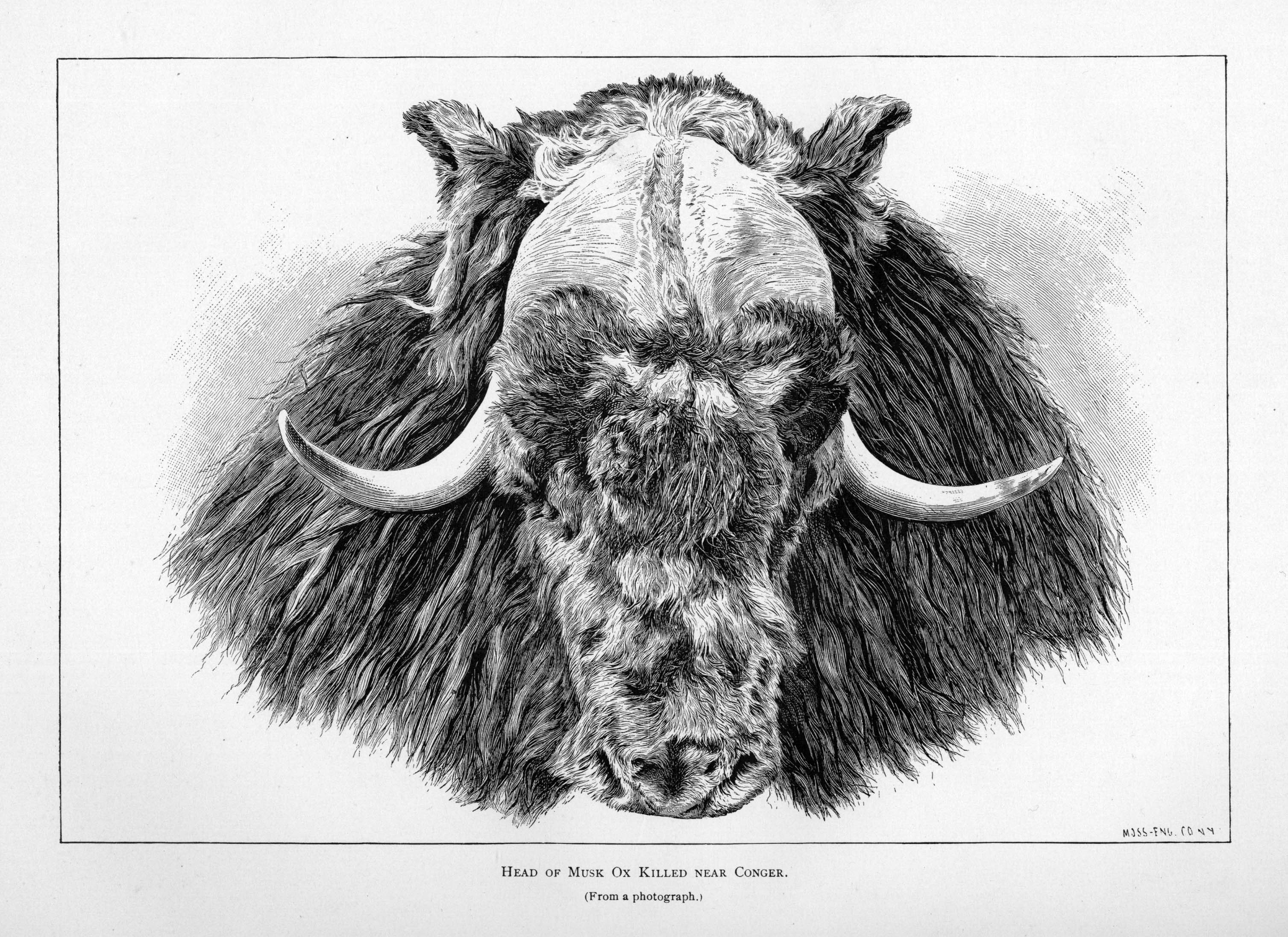 Plate (page 8) from a publication of the first IPY (International Polar Year, 1882-1883), entitled Head of musk ox killed near Conger.